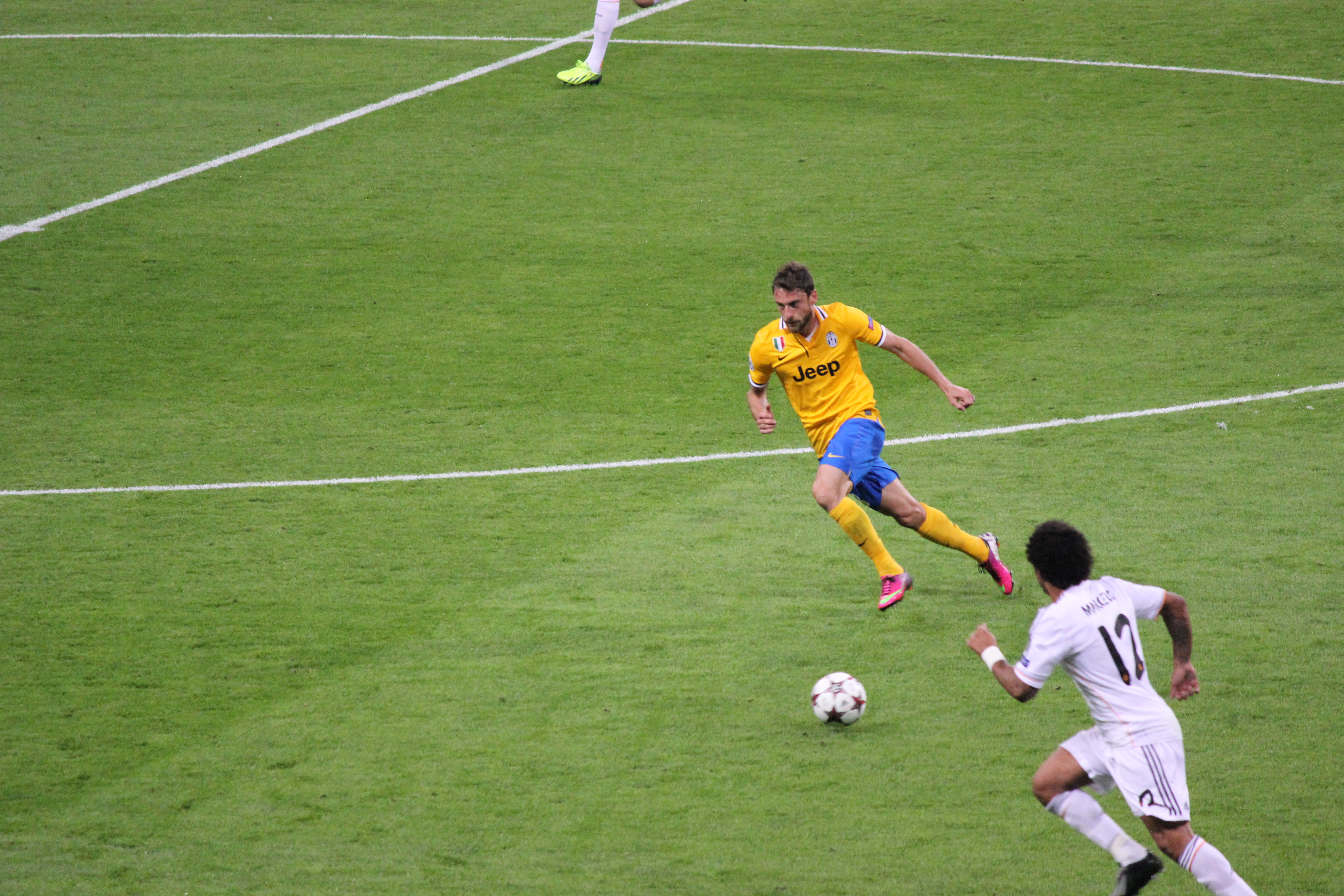 Real Madrid vs Juventus, 24 October 2013 Champions League